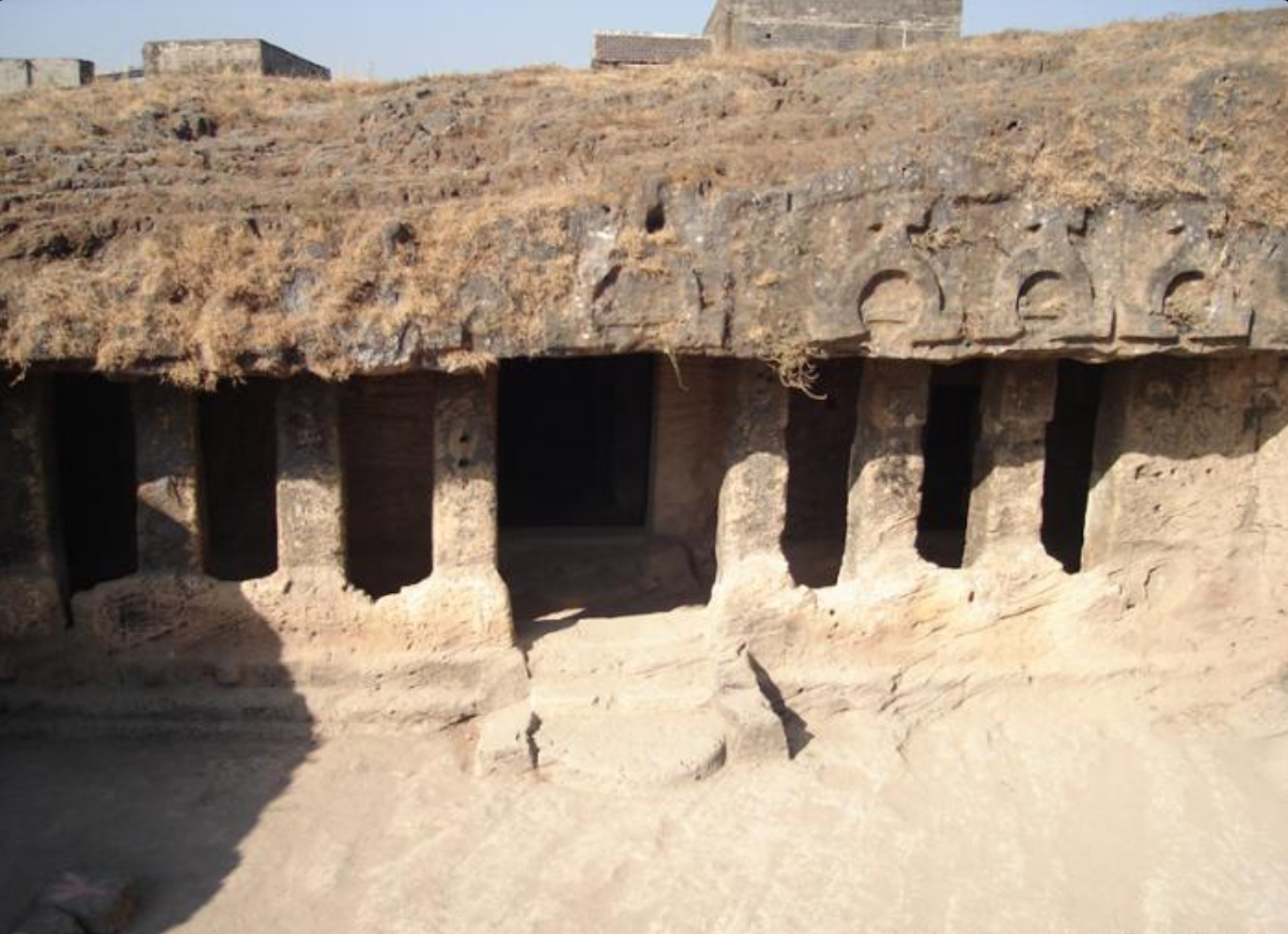 Baba Pyra caves